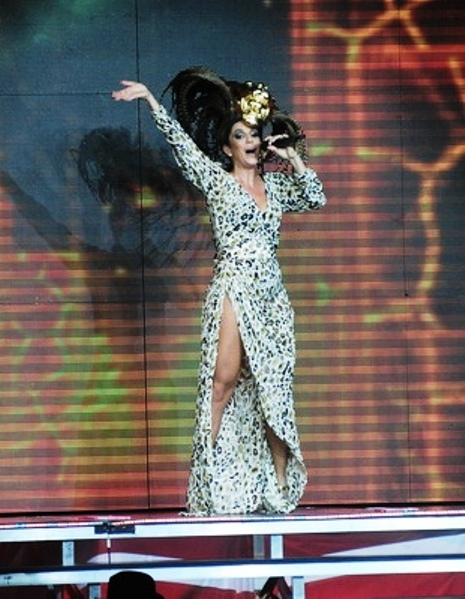 Ivete Sangalo tour debut in the "Madison World Tour" in Salvador.